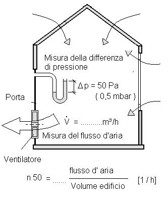 Blower-door-test_it, Kino, Wikipedia Germany